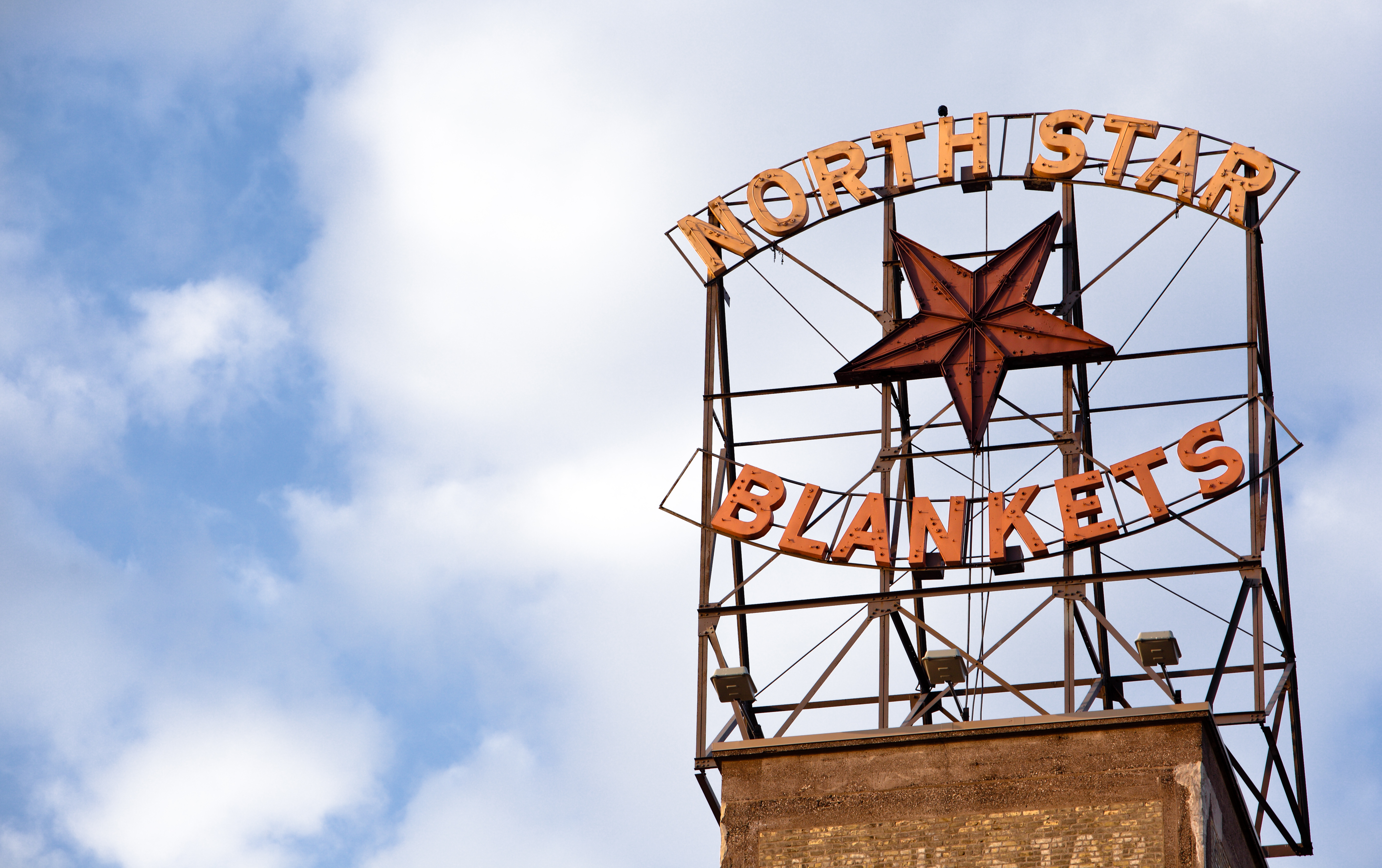 The North Star Blankets sign, from the North Star Woolen Mill